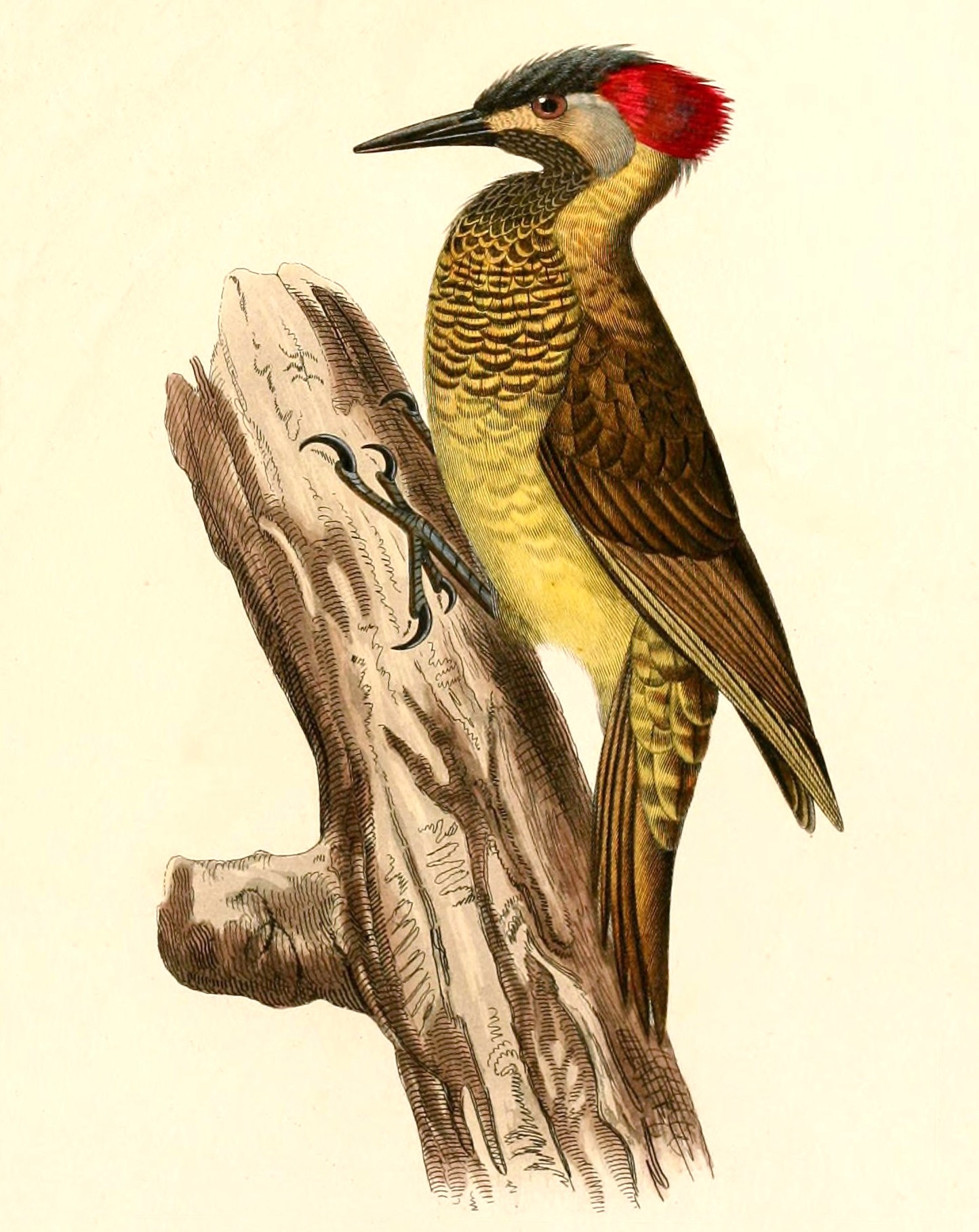 « Picus canipileus » = Colaptes rubiginosus canipileus (Subspecies of Golden-olive Woodpecker)